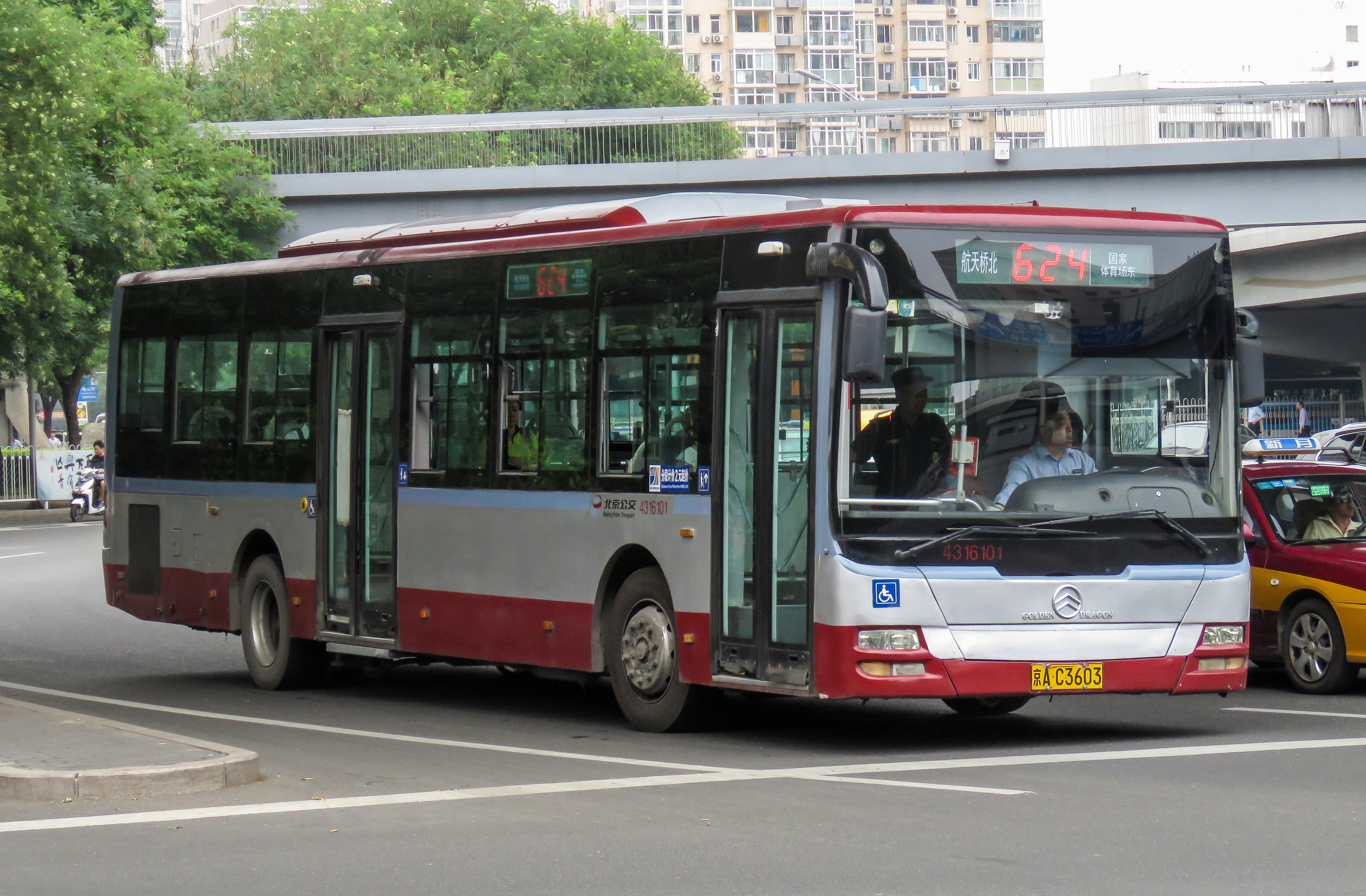 Route 624, but the destination signs are 645's.